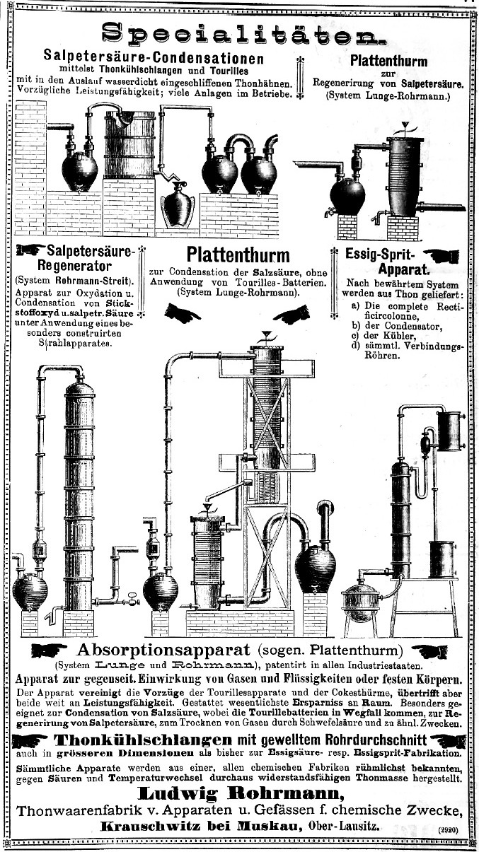 Advertisement of stoneware manufactory Ludwig Rohrmann, Krauschwitz, Saxony, 1888